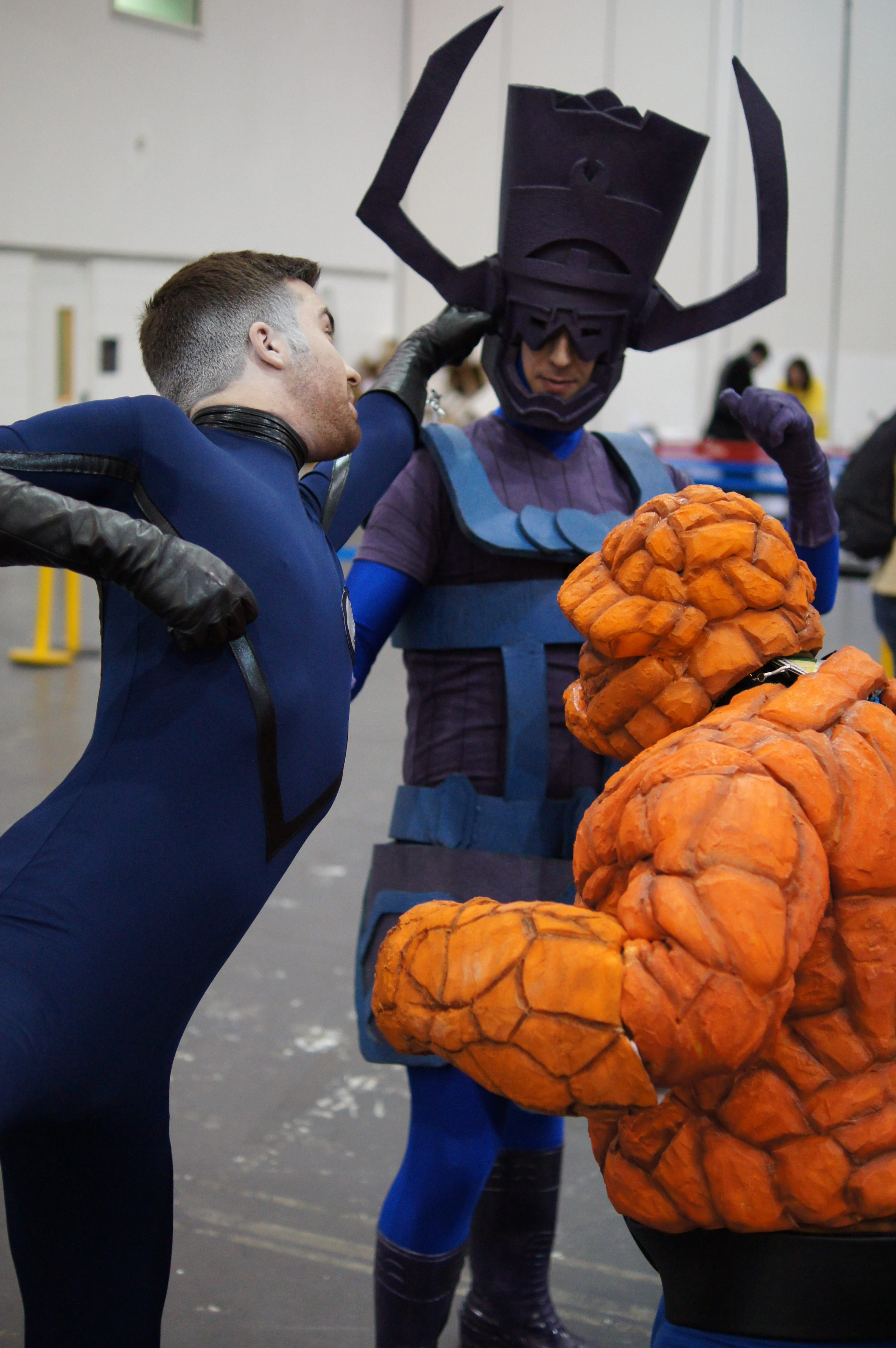 Cosplayers Mr. Fantastic and The Thing vs. Galactus at London Super Comic Convention, February 25, 2012.